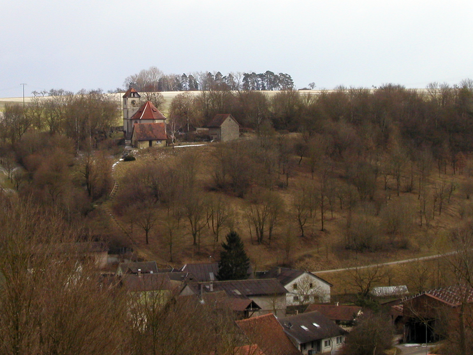 View to the Ulrichskapelle from the other side of the valley